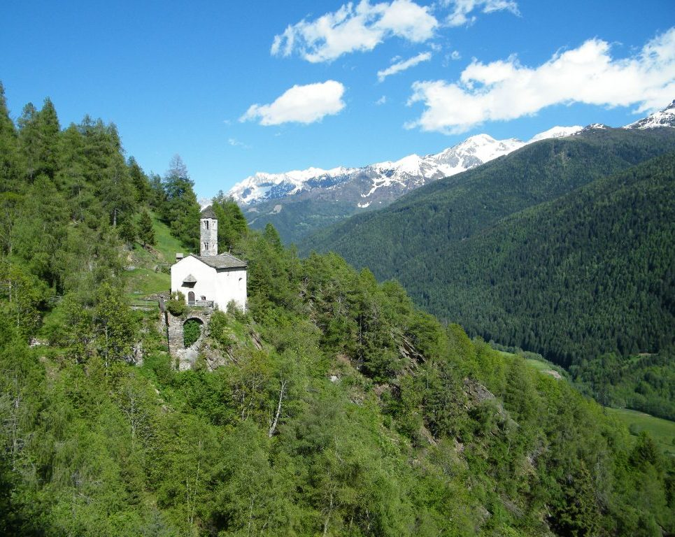 Church of St. Clemens. Vezza d'Oglio, Val Camonica